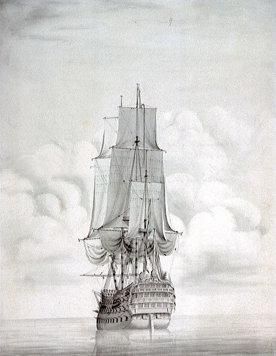 The English ship Duke 90 Guns ca.1750 (sic!)